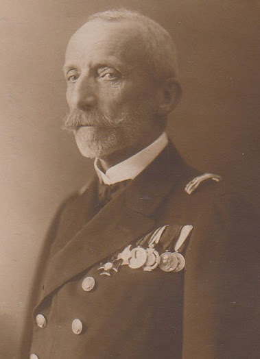 Admiral Archduke Karl Stephan of Austria-Teschen (1860-1933), photo of 1917.